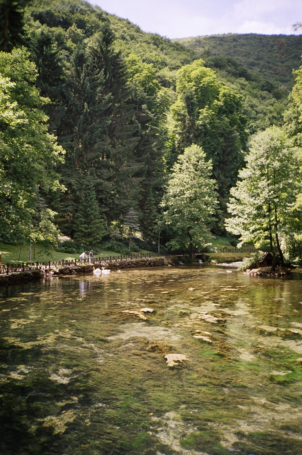 Vrelo Bosne